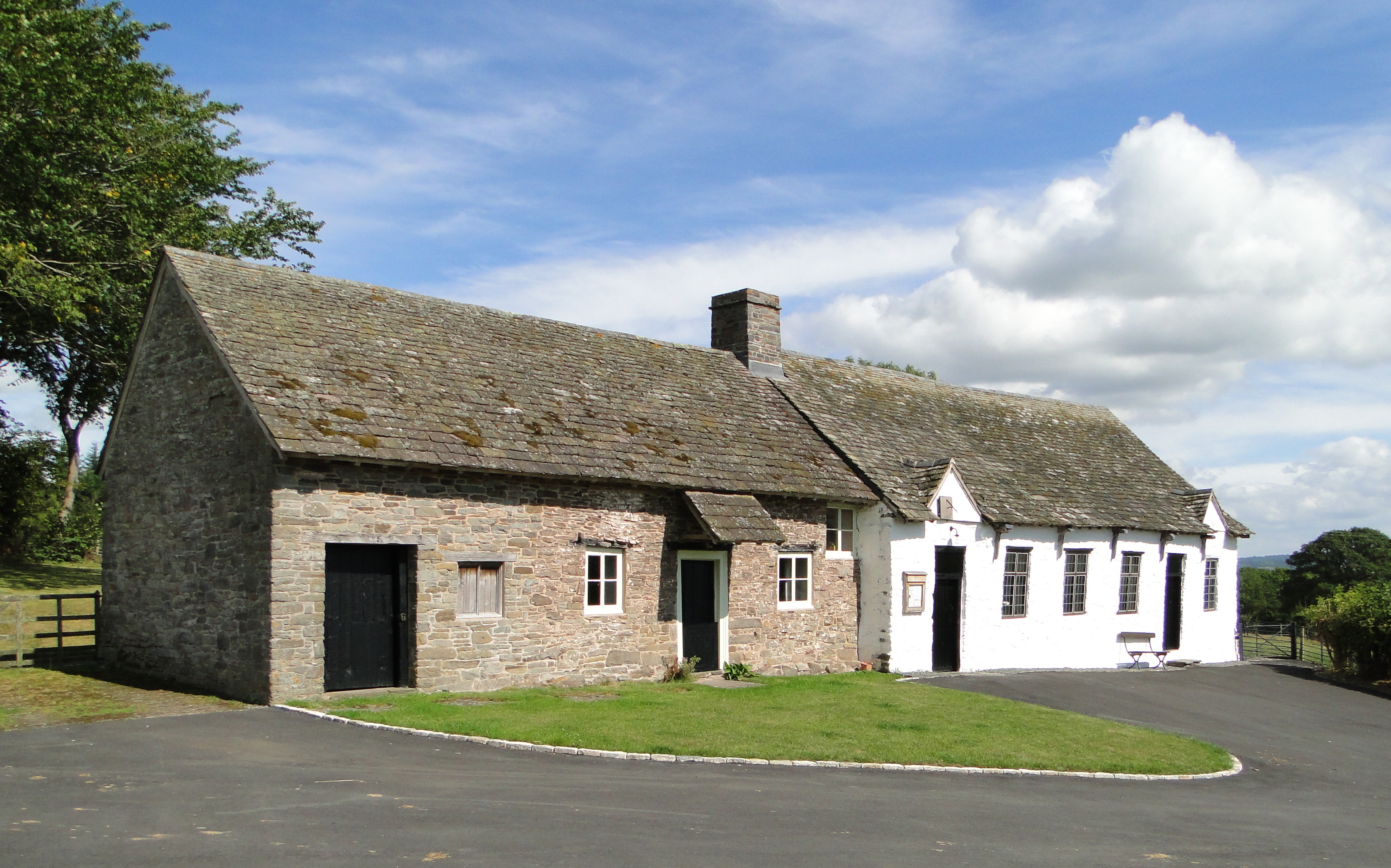 Maesyronnen Chapel Still very much in regular use and dating from around 1696, when it was converted from an earlier farmstead. A full set of period furnishings inside makes it well worth seeking out the key.